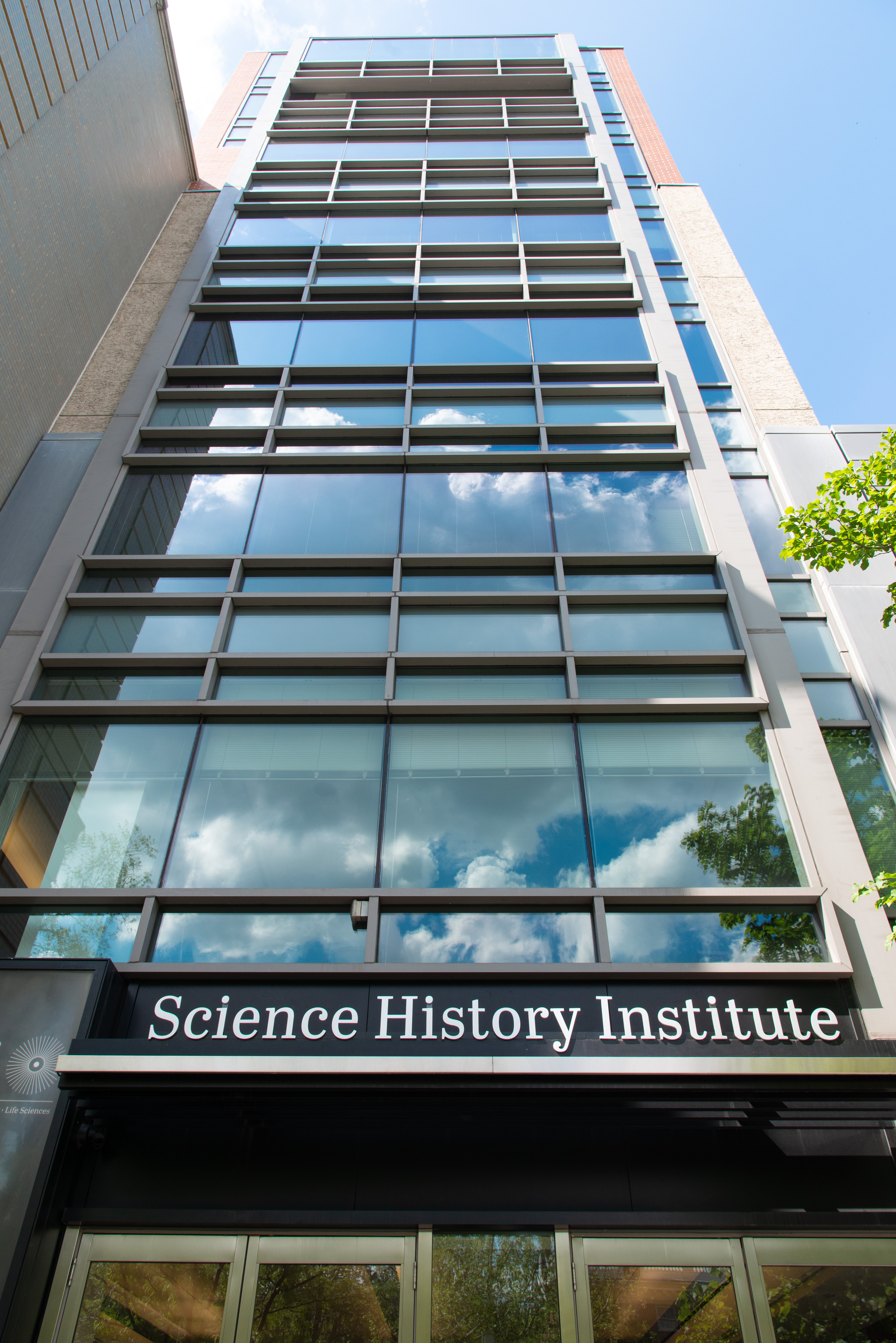 This is the exterior of the Science History Institute building, 315 Chestnut Street, Philadelphia, Pennsylvania. Prior to February 1, 2018, the Science History Institute was named the Chemical Heritage Foundation. This photograph shows the new name on the front